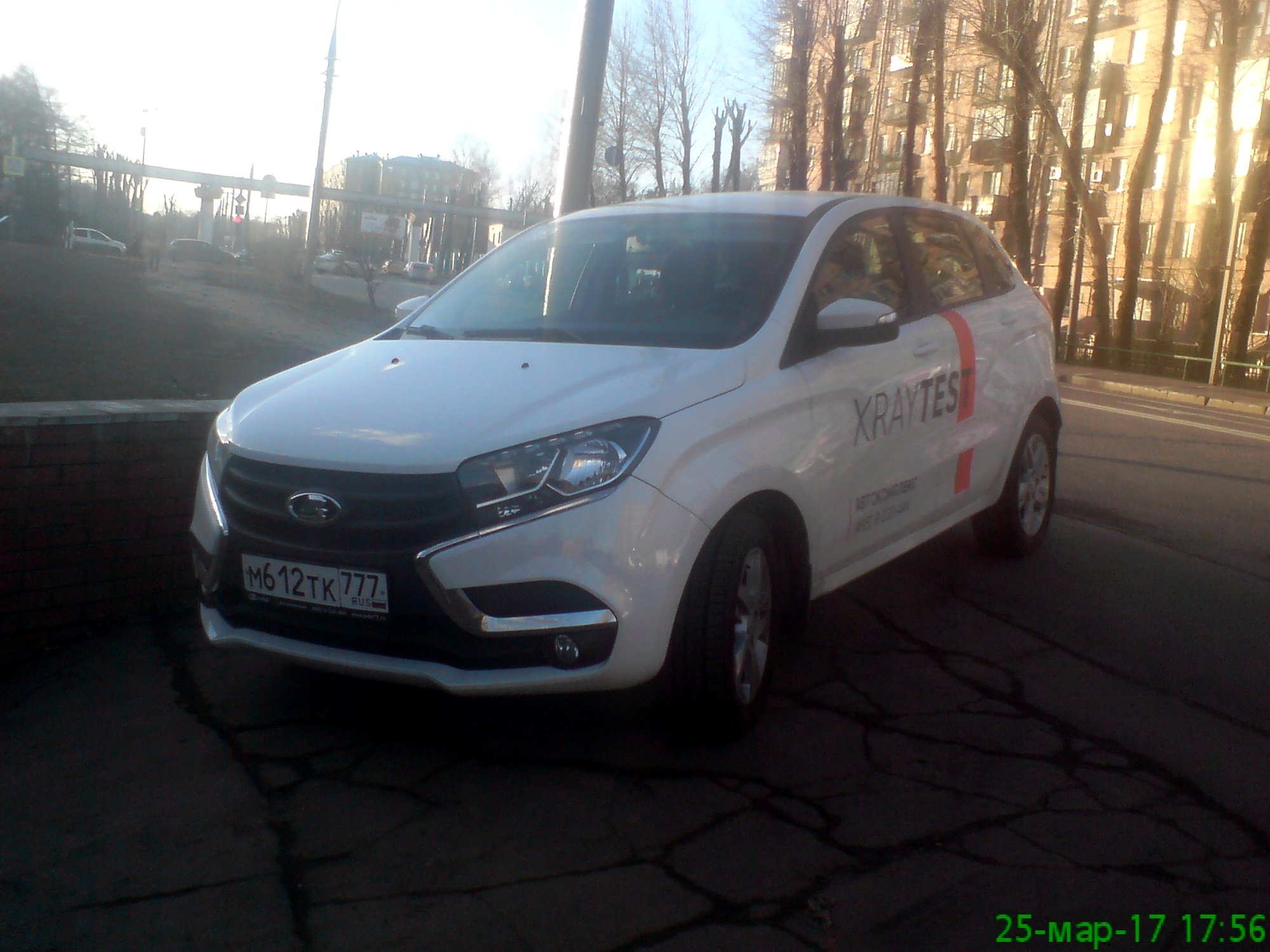 LADA XRAY in Moscow